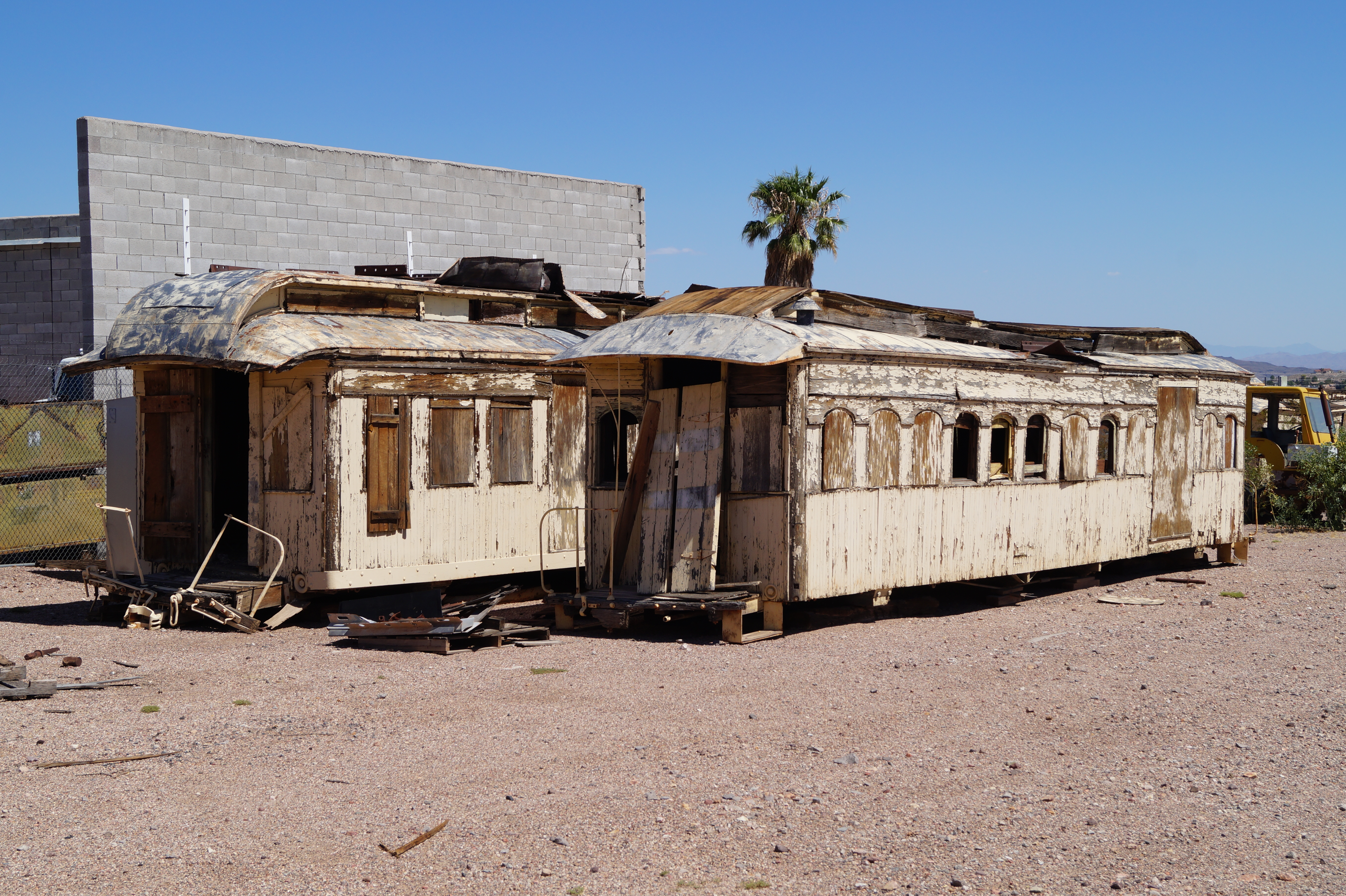 The Nevada State Railroad Museum which is an agency of the Nevada Department of Cultural Affairs. It is located at Yucca Street on the tracks of the historic Union Pacific Railroad branch Henderson-Boulder City near the former Boulder City Railroad Yards where the Hoover Dam construction equipment was unloaded in the 1930s.